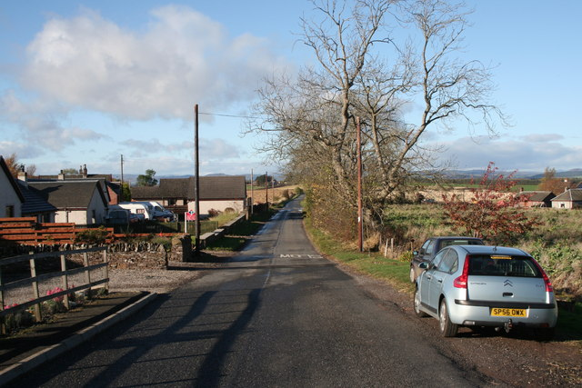 Road from Woodside